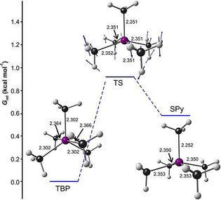 Three energy states of Pentamethylbismuth, including trigonal bipyramid, square pyramid, and transition state. Original caption: Gibbs free energies and geometries for the TBP, TS and SPy geometries of BiMe5. ΔG≠=0.92 kcal mol−1 (0.040 eV), νi=51.0i cm−1